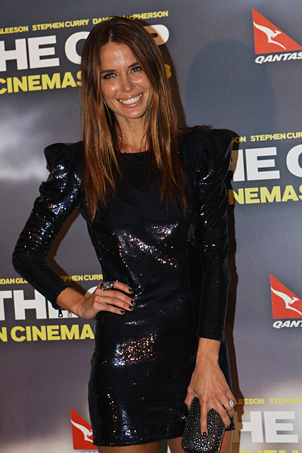 Australian actress Jodi Gordon at the Sydney premiere of The Cup.